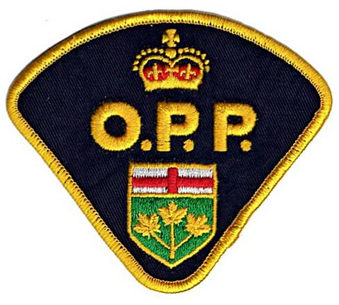 Picture taken by the uploader of a badge of Ontario Provincial Police